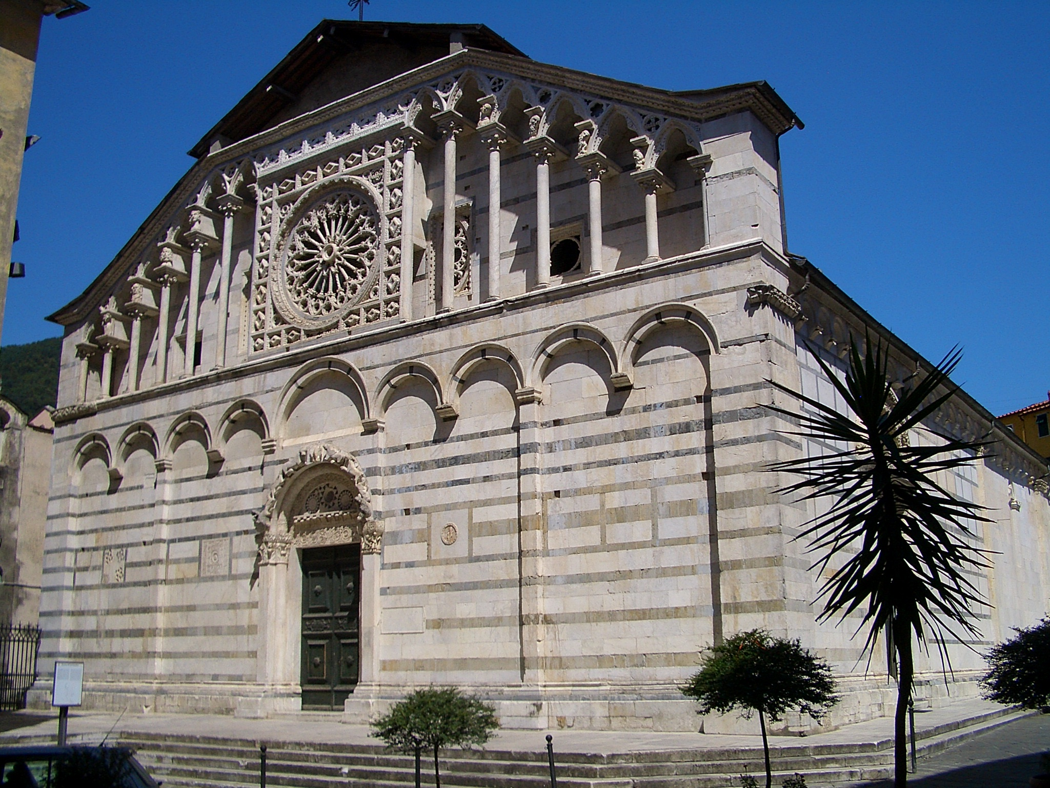 Carrara cathedral